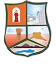 San Diego de la Unión